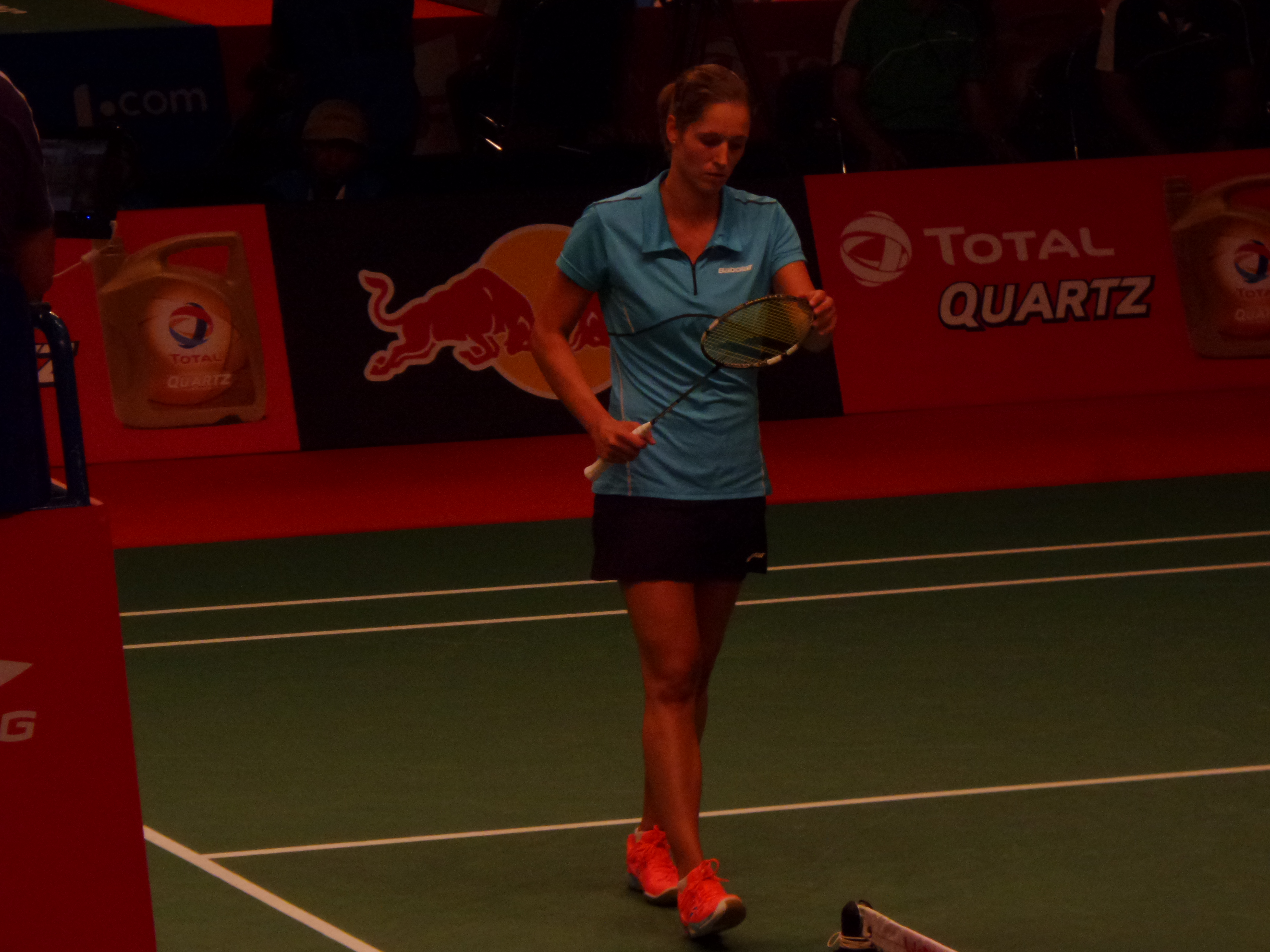 Carla Nelte in action during BWF World Championships Day 2